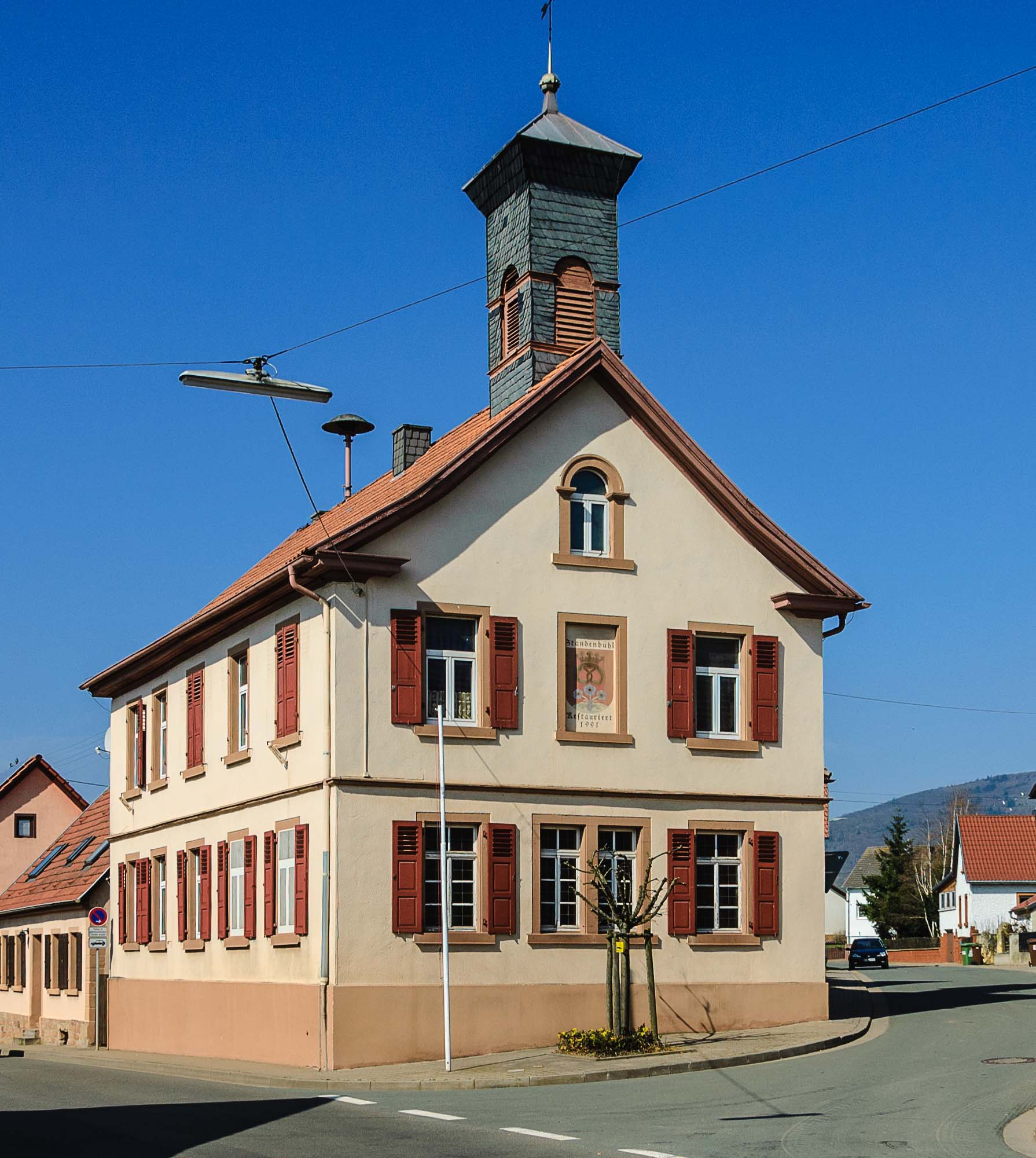 Rathaus Standenbühl